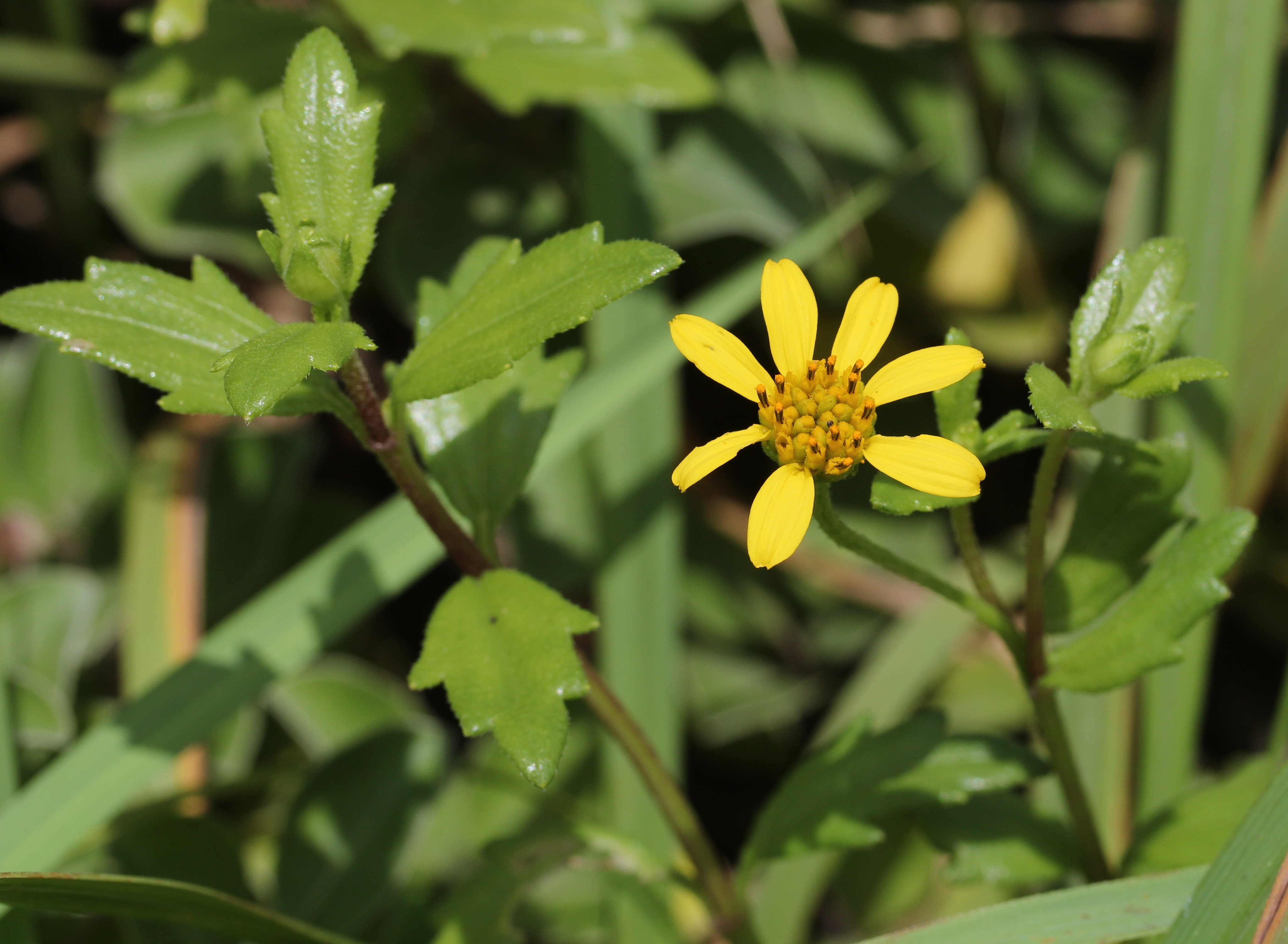 Wedelia prostrata, in Cape Irago, Tahara, Aichi prefecture, Japan.